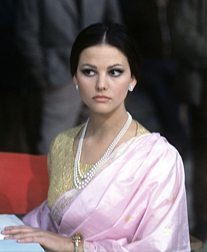 Italian actress Claudia Cardinale wearing the stage costume and revising the script before the shoot of a scene of the film 'The Pink Panther'. 1963